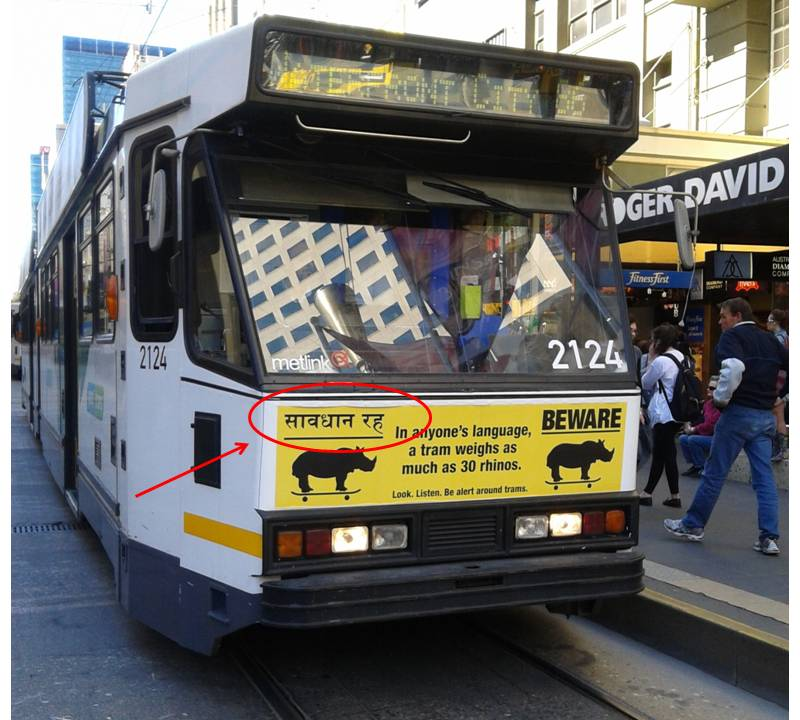 Devnagari used in Melbourne Australia